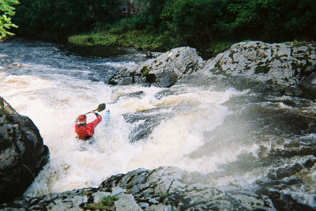 Scaur water Penpont. Tricky grade III rapid on the Saur Water